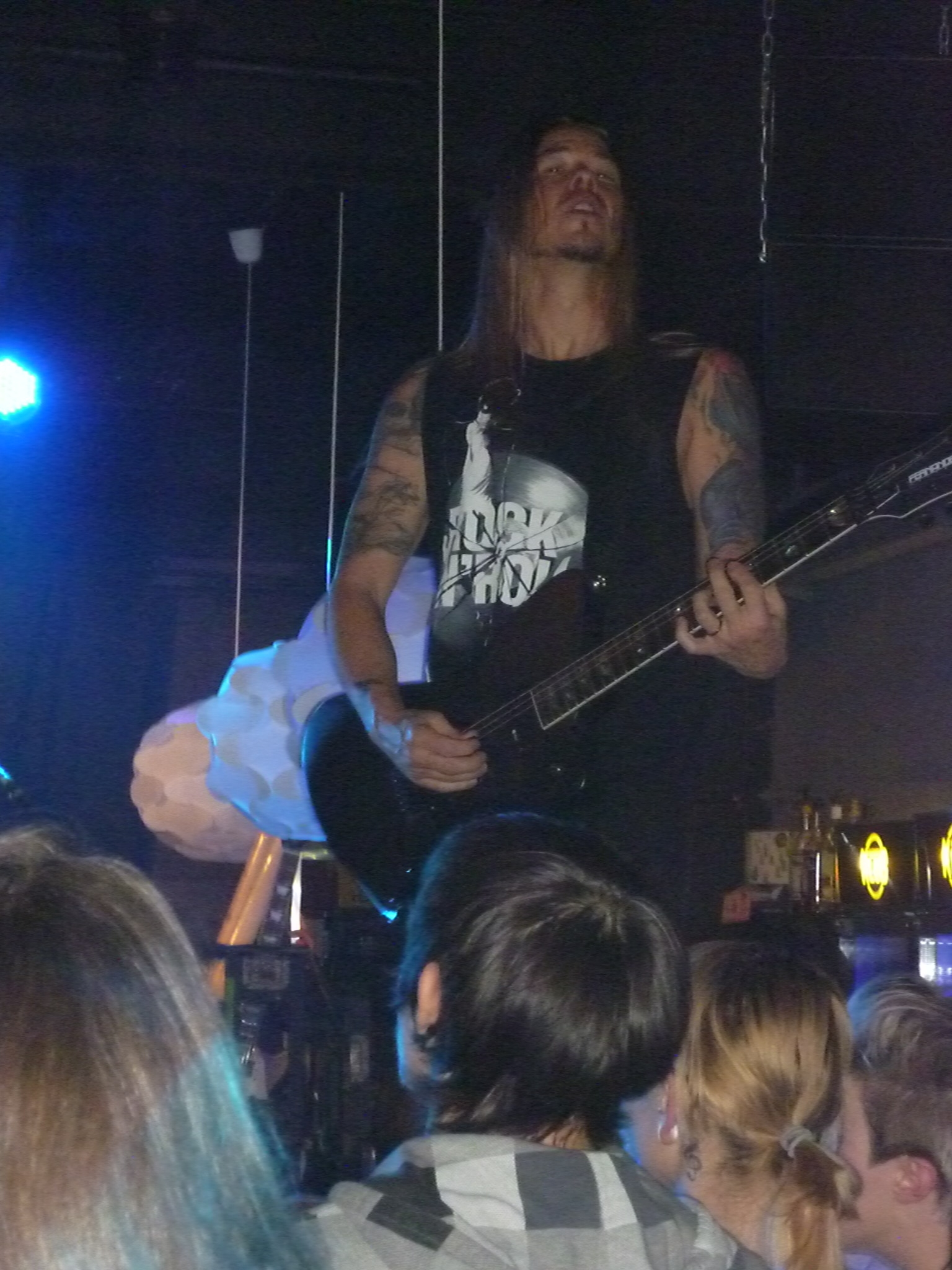 Rich Ward live with Fozzy at the Kleiner Klub (Saarbrücken)